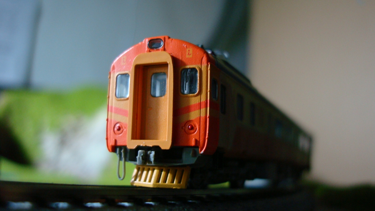 TRA EMU100 N-SIZE MODEL OF Touch-Rail Models CO.,Ltd